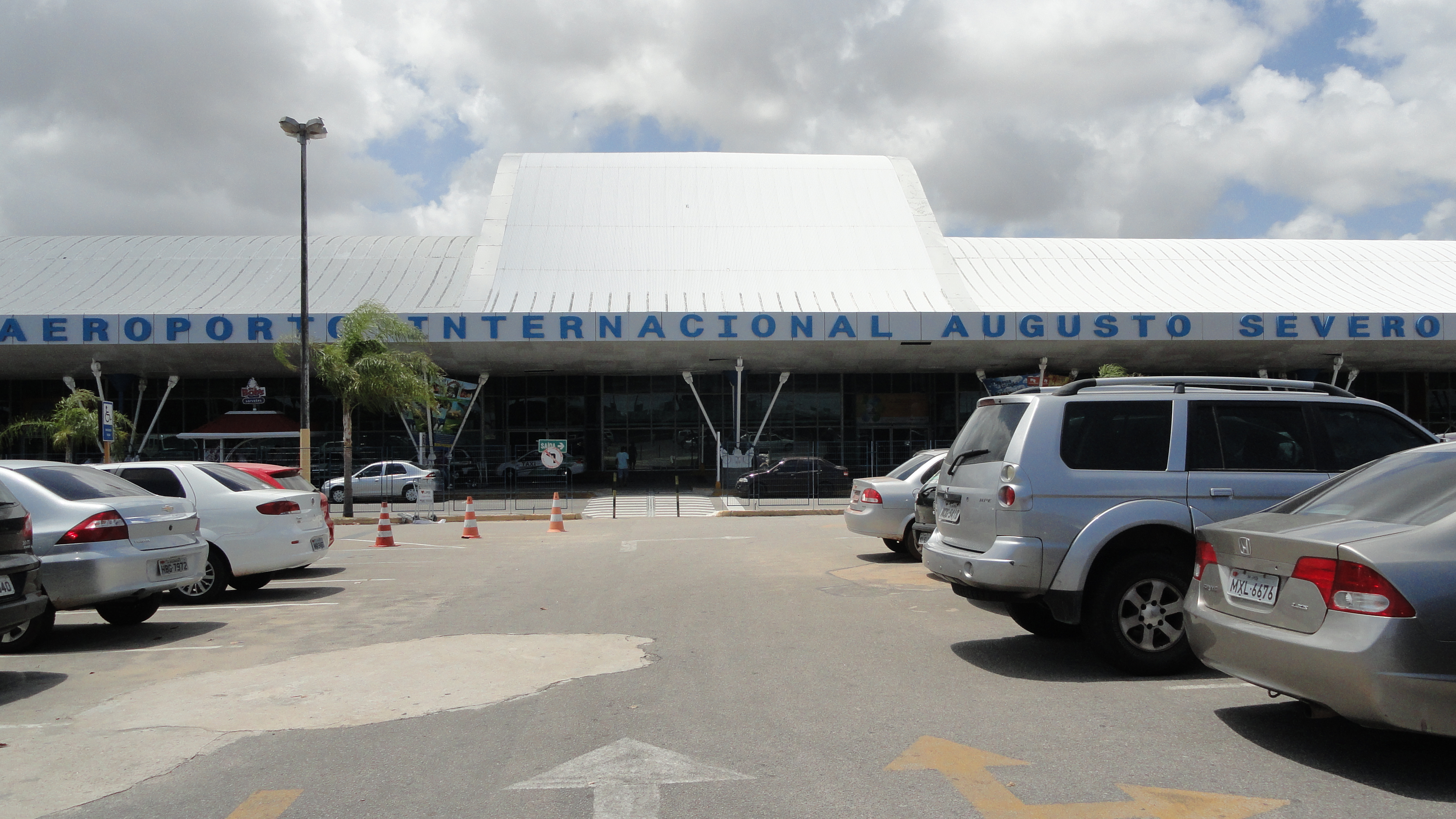 Front of Airport Augusto Severo, Natal - RN, Brazil.